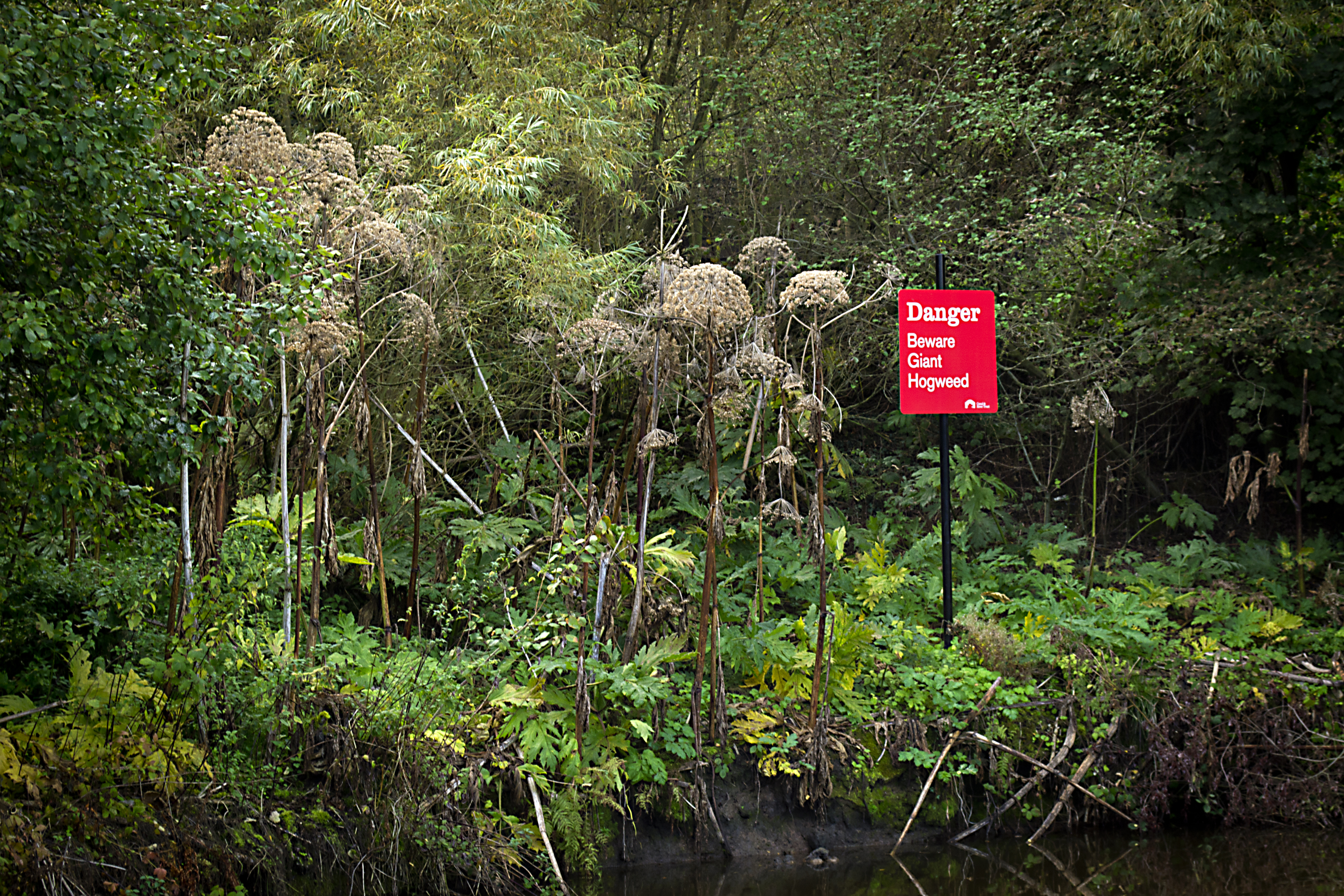 An afternoon walk down the canal. Good job these plants are on the other side. A clear signal to keep away! The sap of Giant Hogweed contains toxic chemicals known as furanocoumarins. When these come into contact with the skin, and in the presence of sunlight, they cause a condition called phyto-photodermatitis: a reddening of the skin, often followed by severe burns and blistering. The burns can last for several months and even once they have died down the skin can remain sensitive to light for many years.